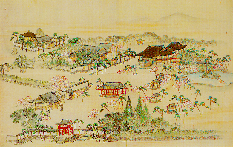 Old iew on Koryuji at Kyoto